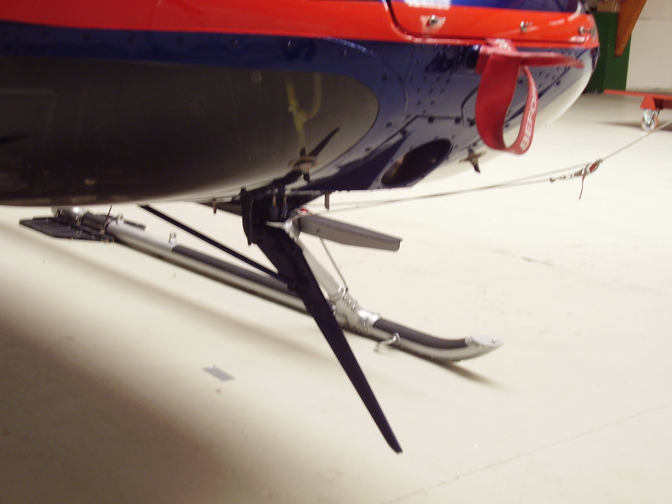 lower Wire Strike Protection System ( = wire cutter)